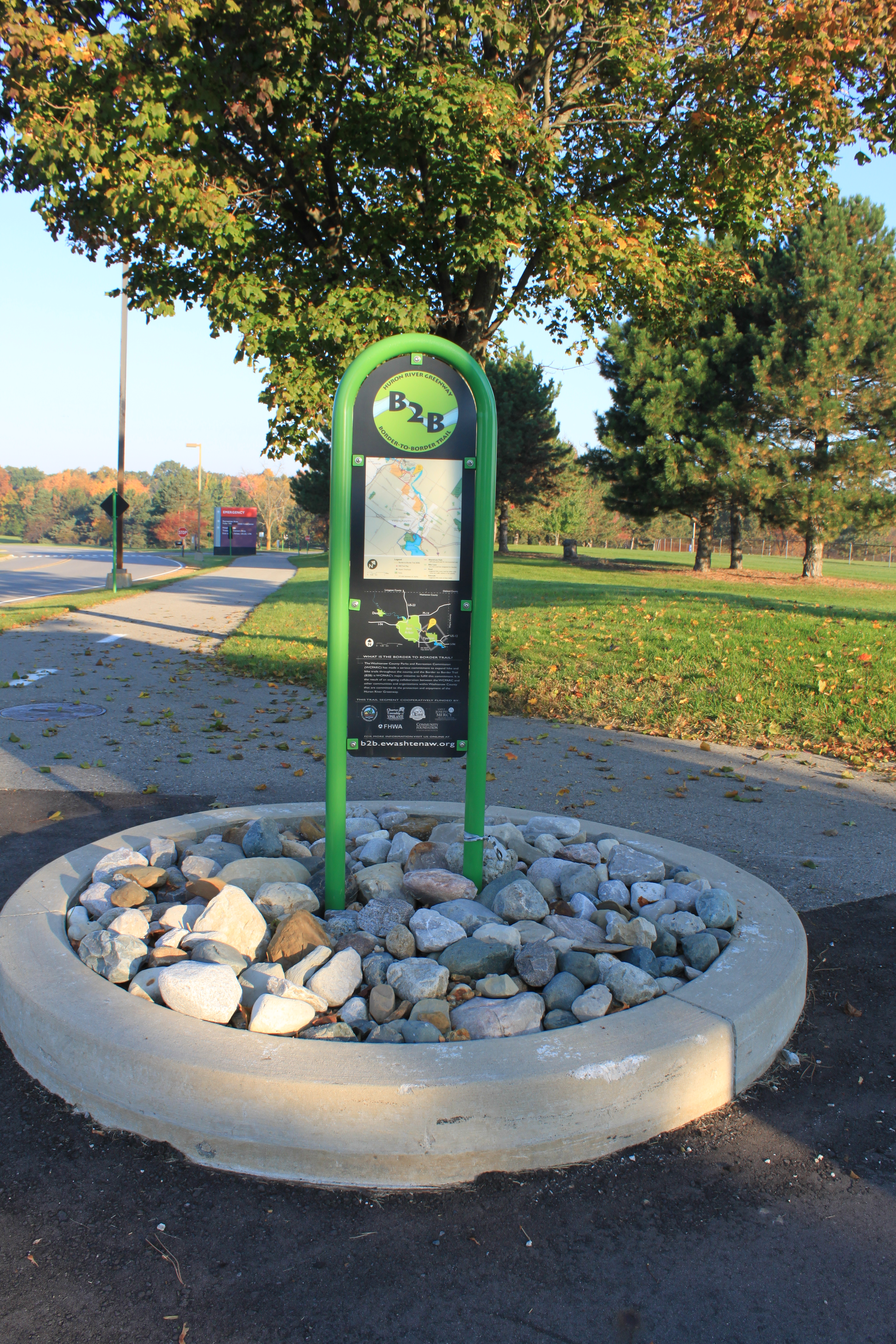 Border-to-Border Trail marker, St. Joseph Mercy Hospital campus, Superior Township, Michigan